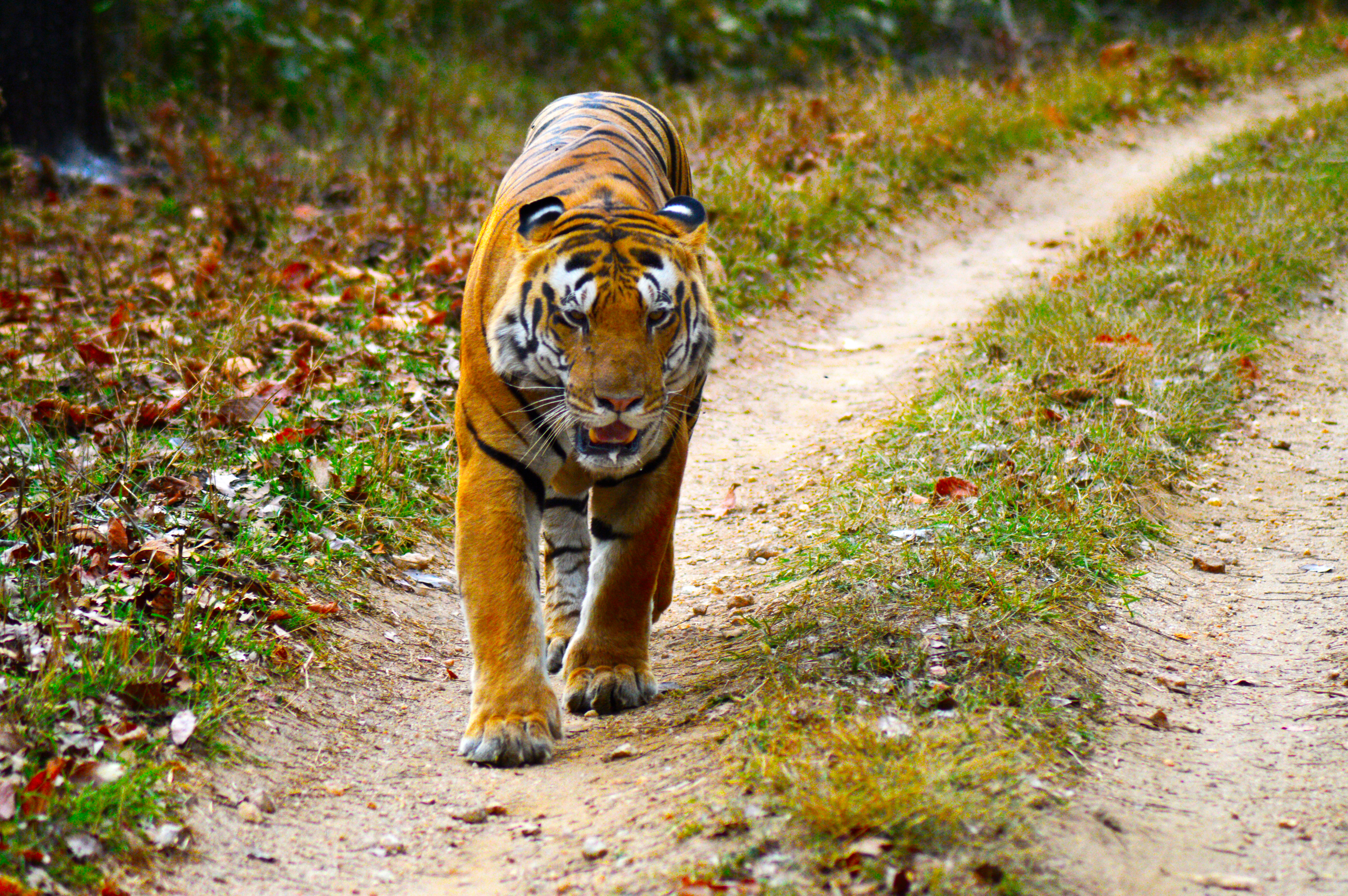 Tiger walking and marking it's territory along the path at Kanha National Park, Madhya Pradesh.